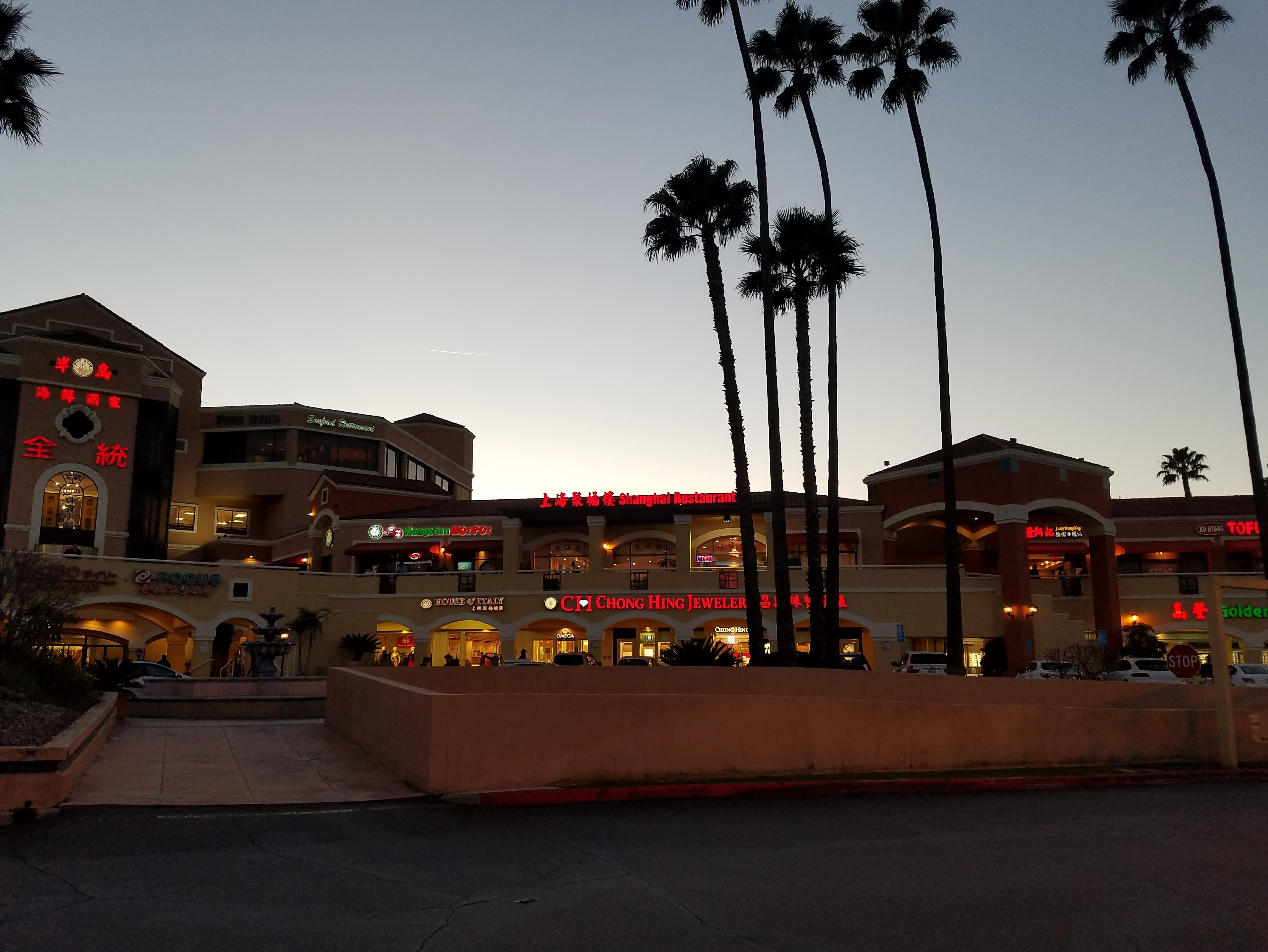 San Gabriel Square in January 2017